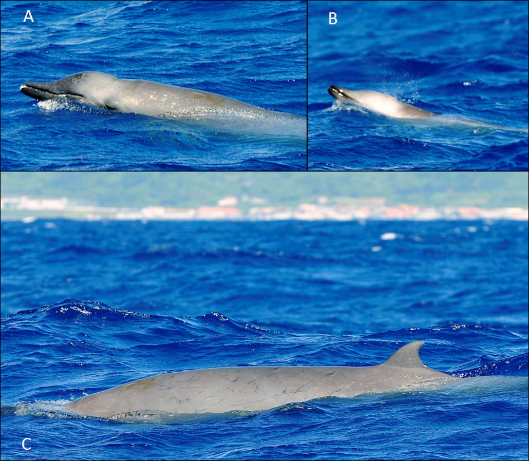 True’s beaked whale observed off Pico.